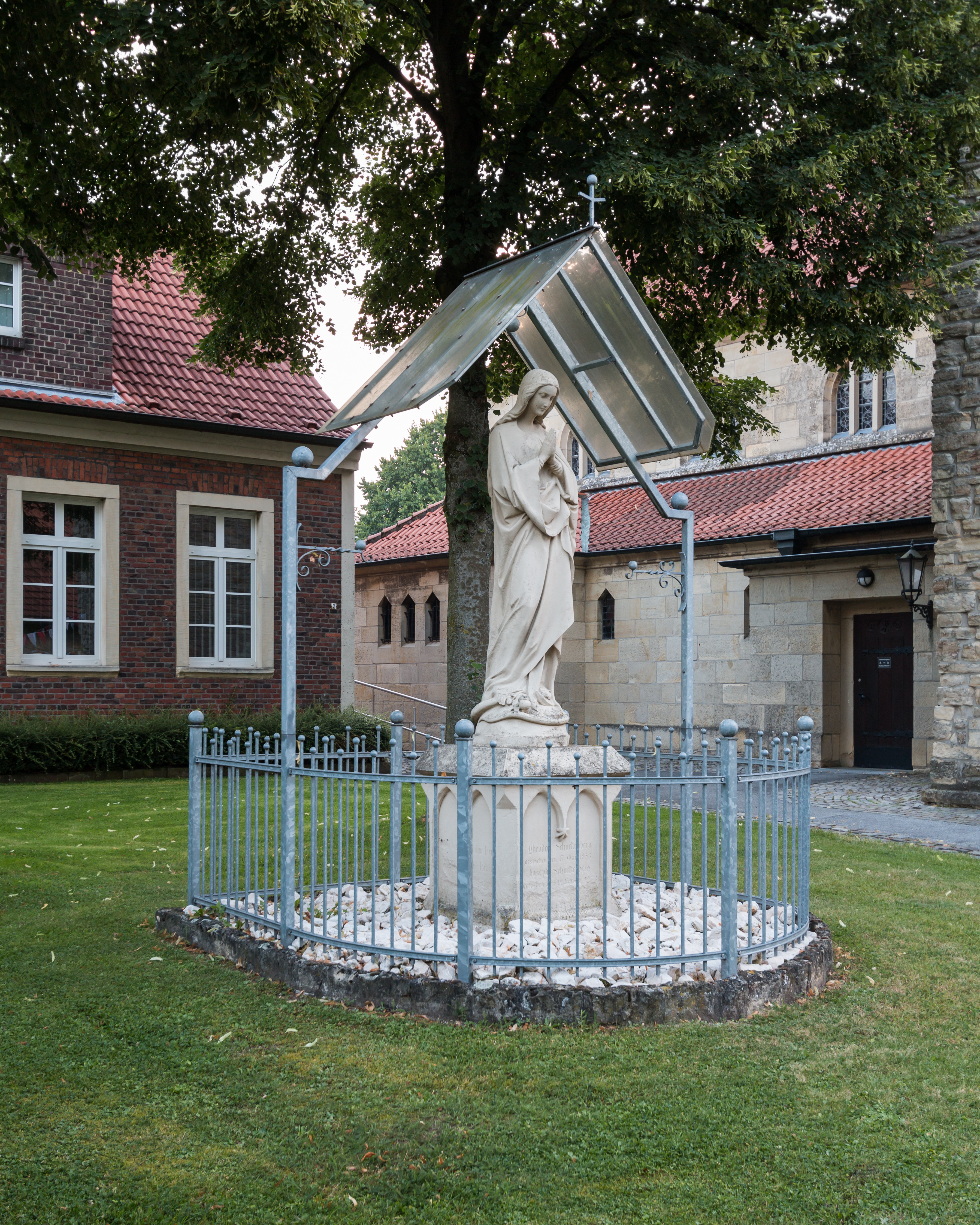 Sculpture of Virgin Mary at the St Boniface Church in Schapdetten, Nottuln, North Rhine-Westphalia, Germany Sculpture TitleMarienfigurArtistUnknown artistDateUnknown dateUnknown date